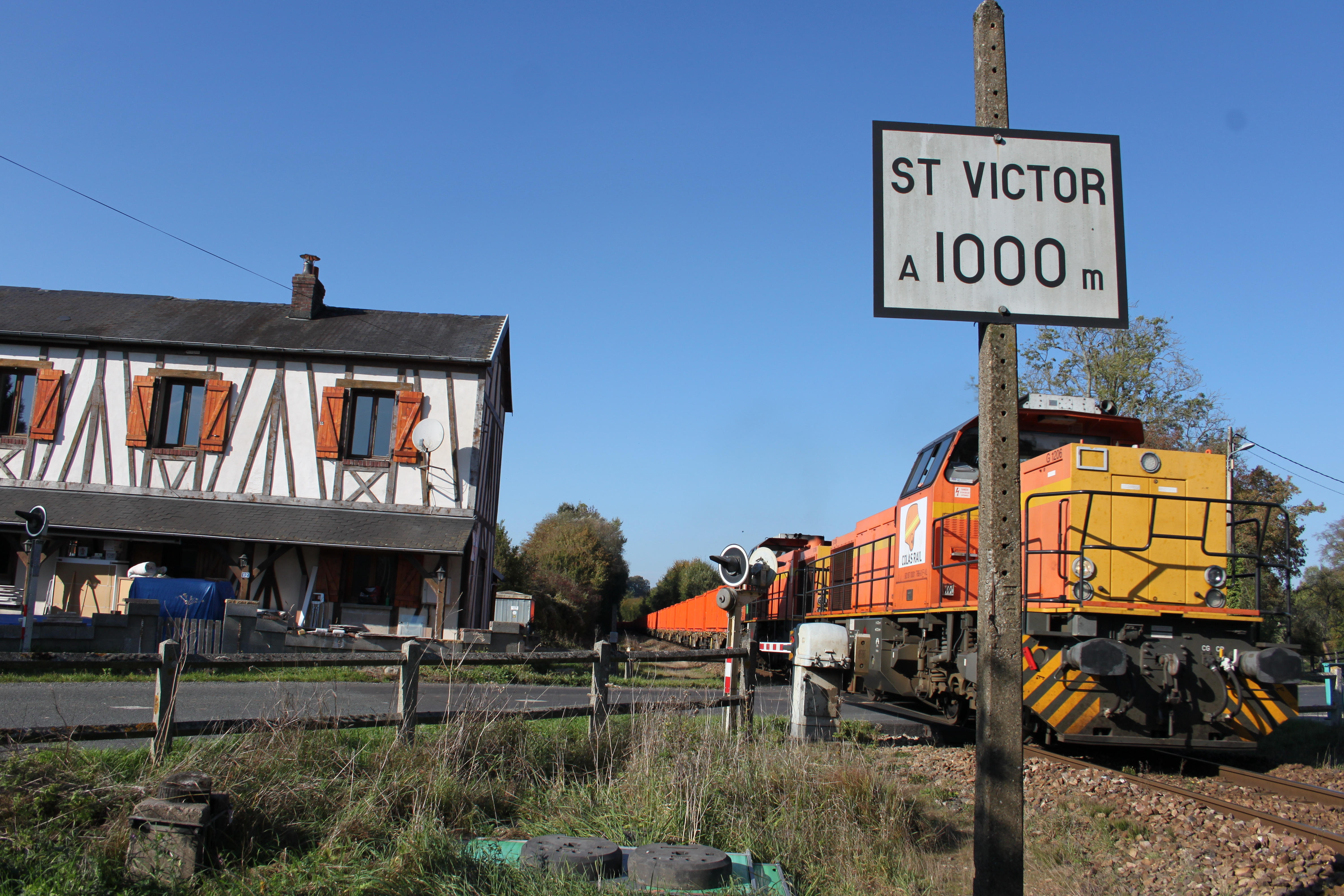 ligne de Malaunay à Dieppe, PN2, à Saint-Victor-l'Abbaye, train de terre COLAS RAIL pour le Terminal Forestier du port de Rouen .